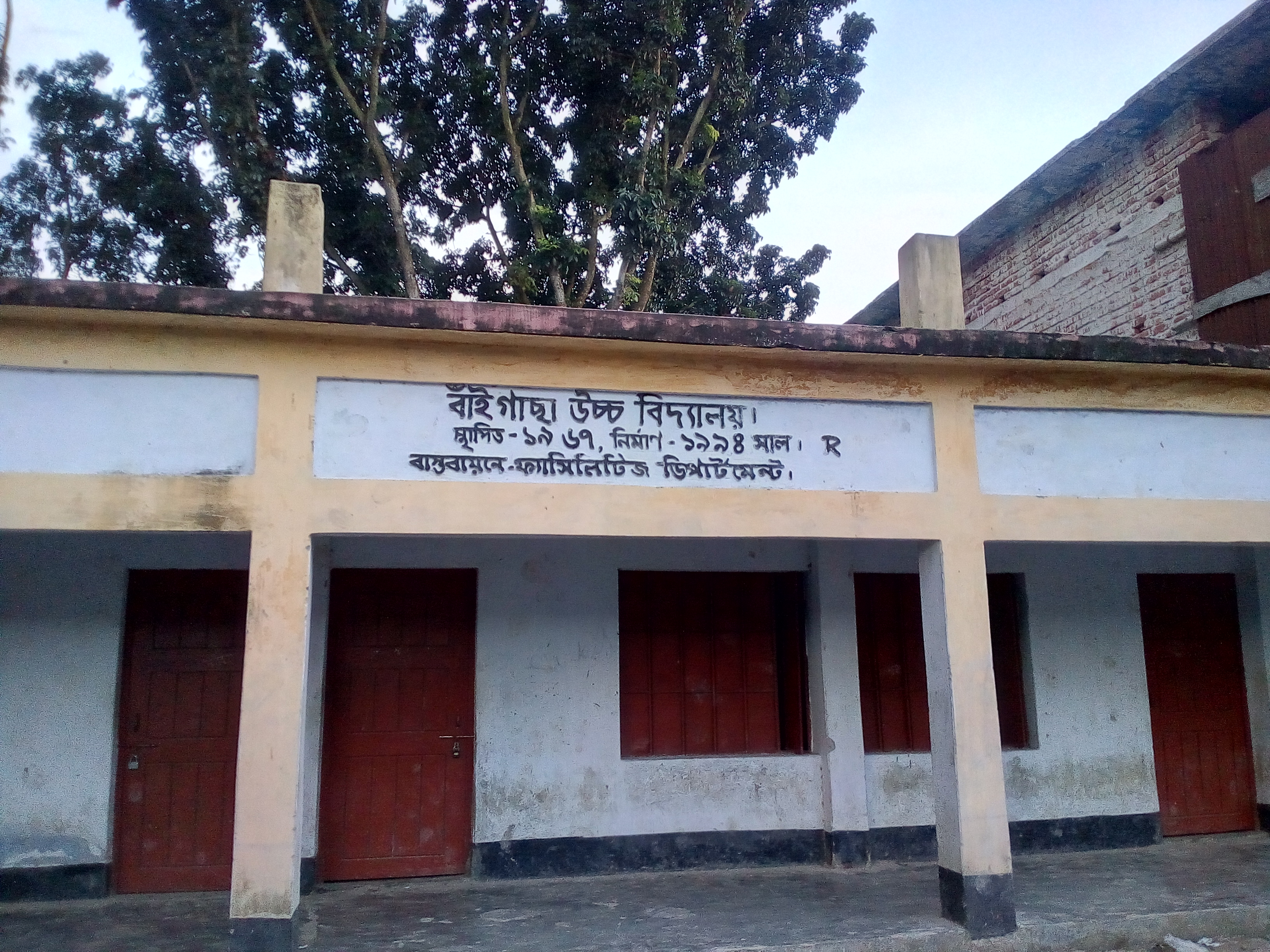 Baigacha High School